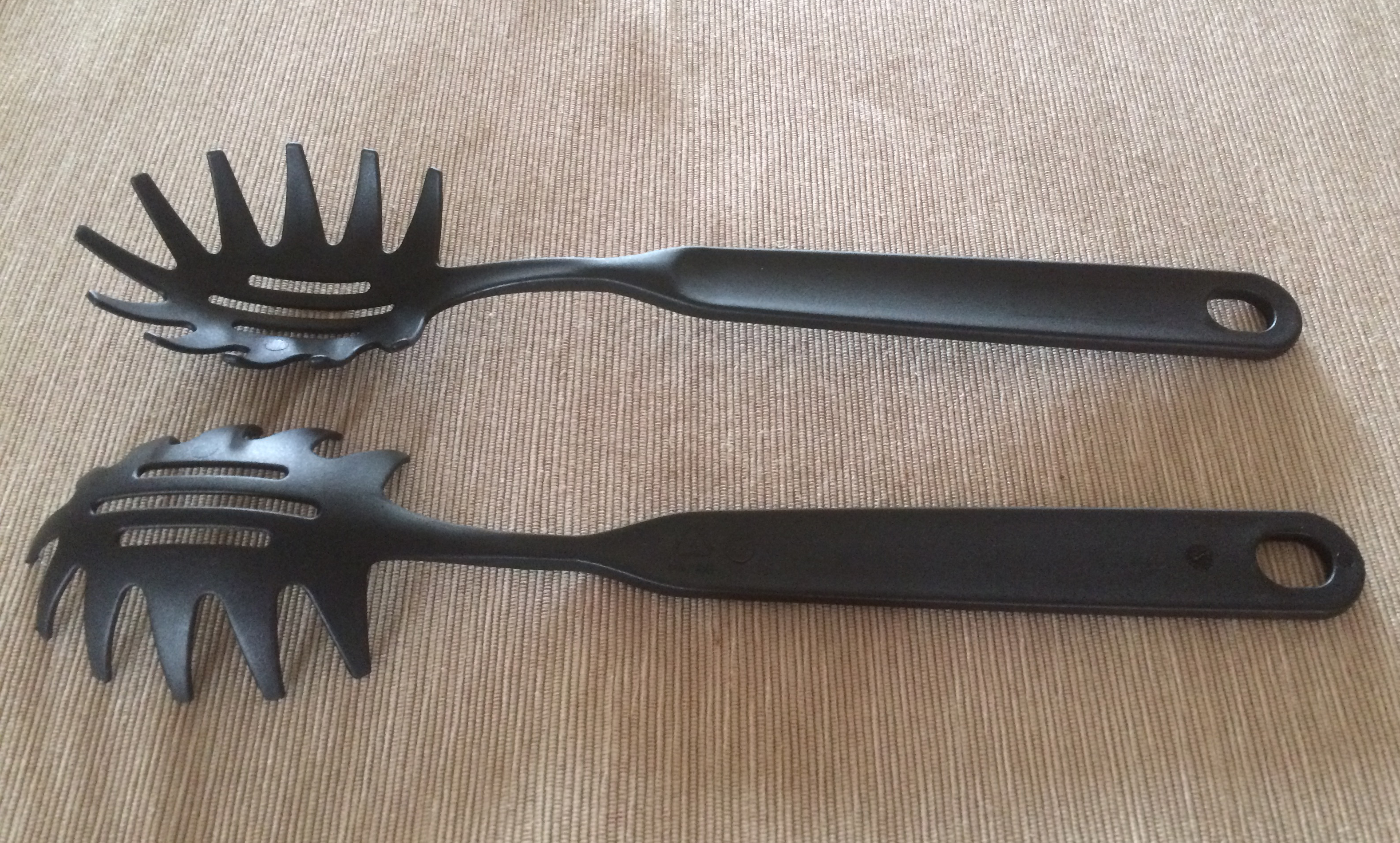 Plastic spaghetti forks